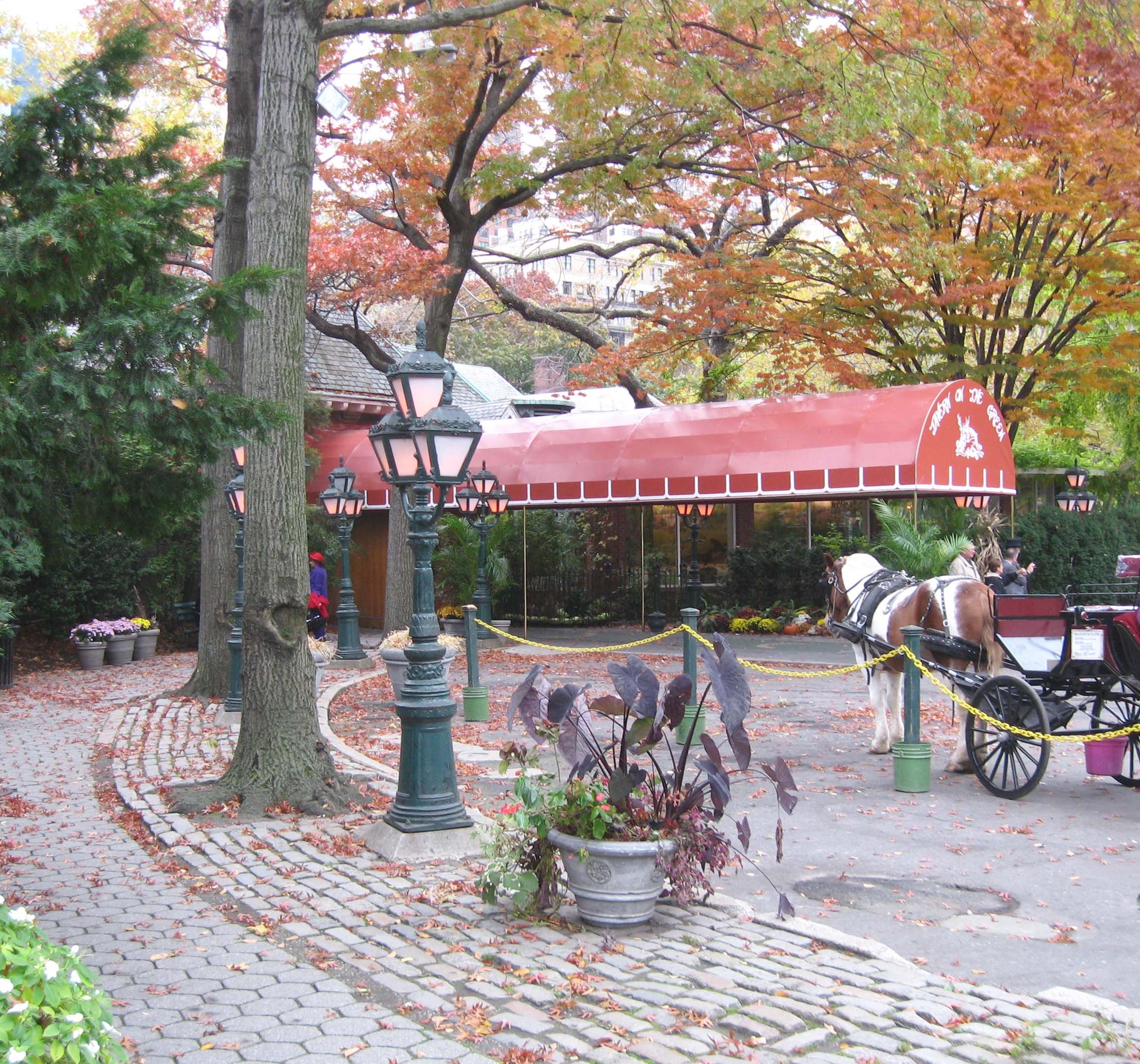 Looking southwest at entrance canopy of Tavern on the Green on a cloudy afternoon